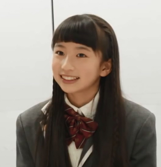 Sakura Gakuin Exclusive Interview with Japanese Station